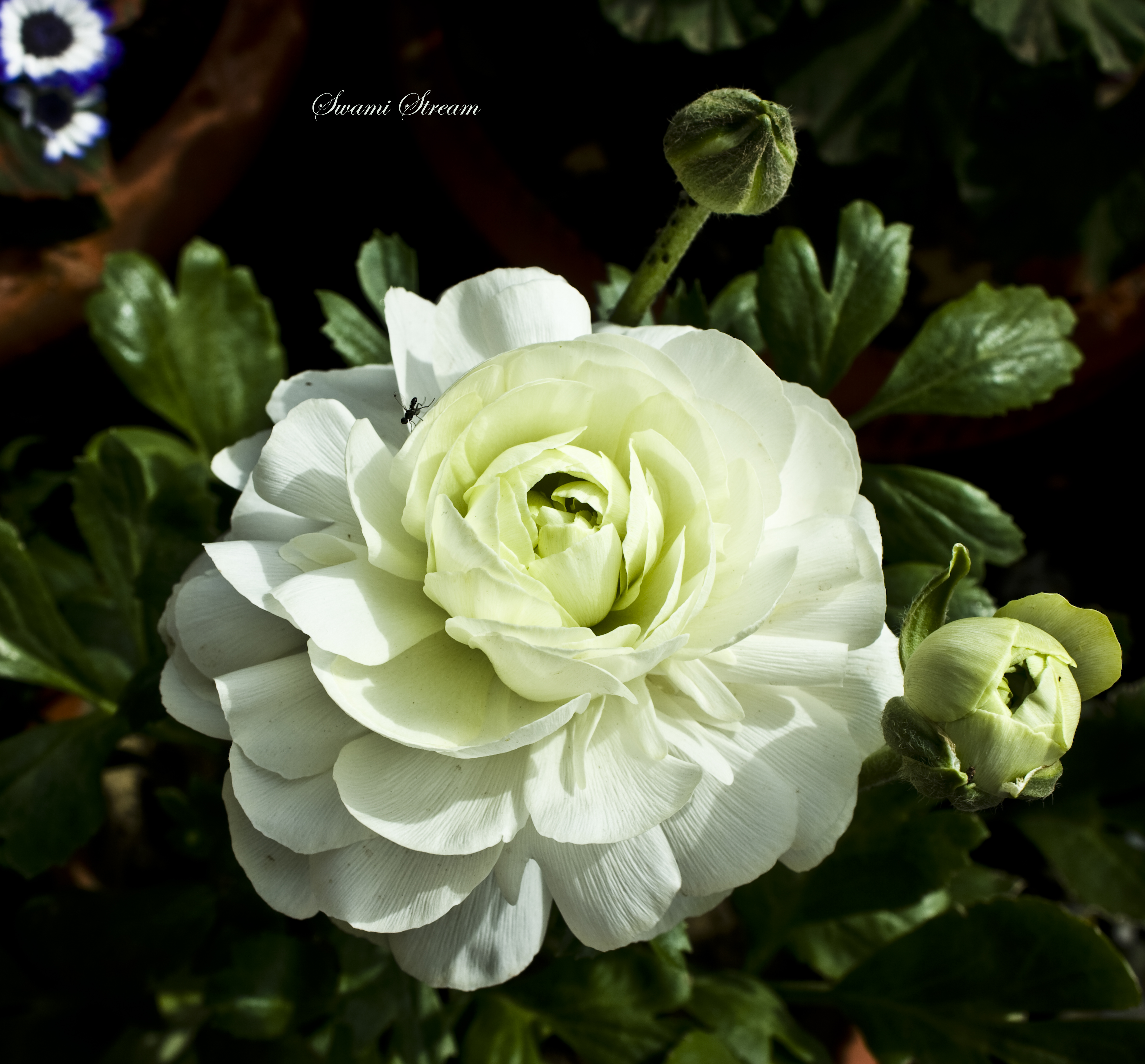 White Persian Buttercup shot at Garden of Five senses in New Delhi